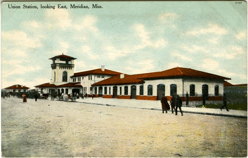 Meridian's Union Station in the early 20th century.